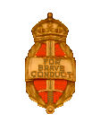 King's Commendation for Brave Conduct as a plastic badge. Second World War issue.